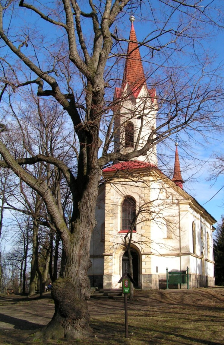 St. Procopius Church in Příbram-Březové Hory.